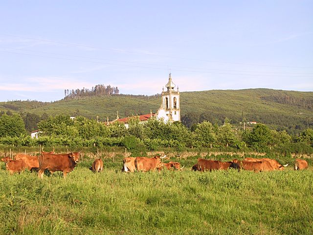 Sunset view of the church and fields of Fontoura, Portugal